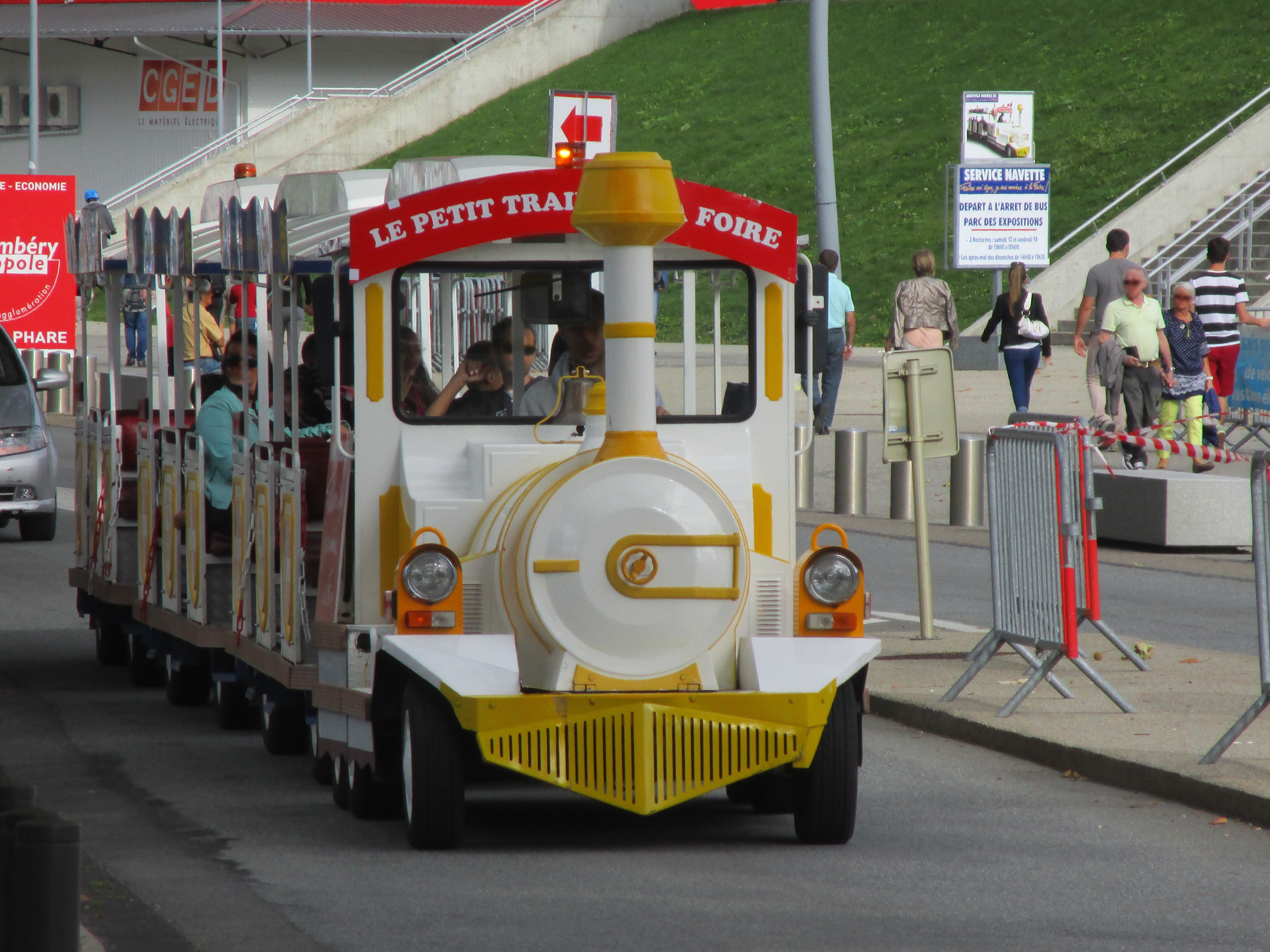 The touristic train of Chambéry used as a shuttle between car parks and the entry of the Foire de Savoie on September 20, 2015. On the red sign fixed on the side of the locomotive, it is write: « FREE SHUTTLE - Let me know, i bring you to the fair ! »